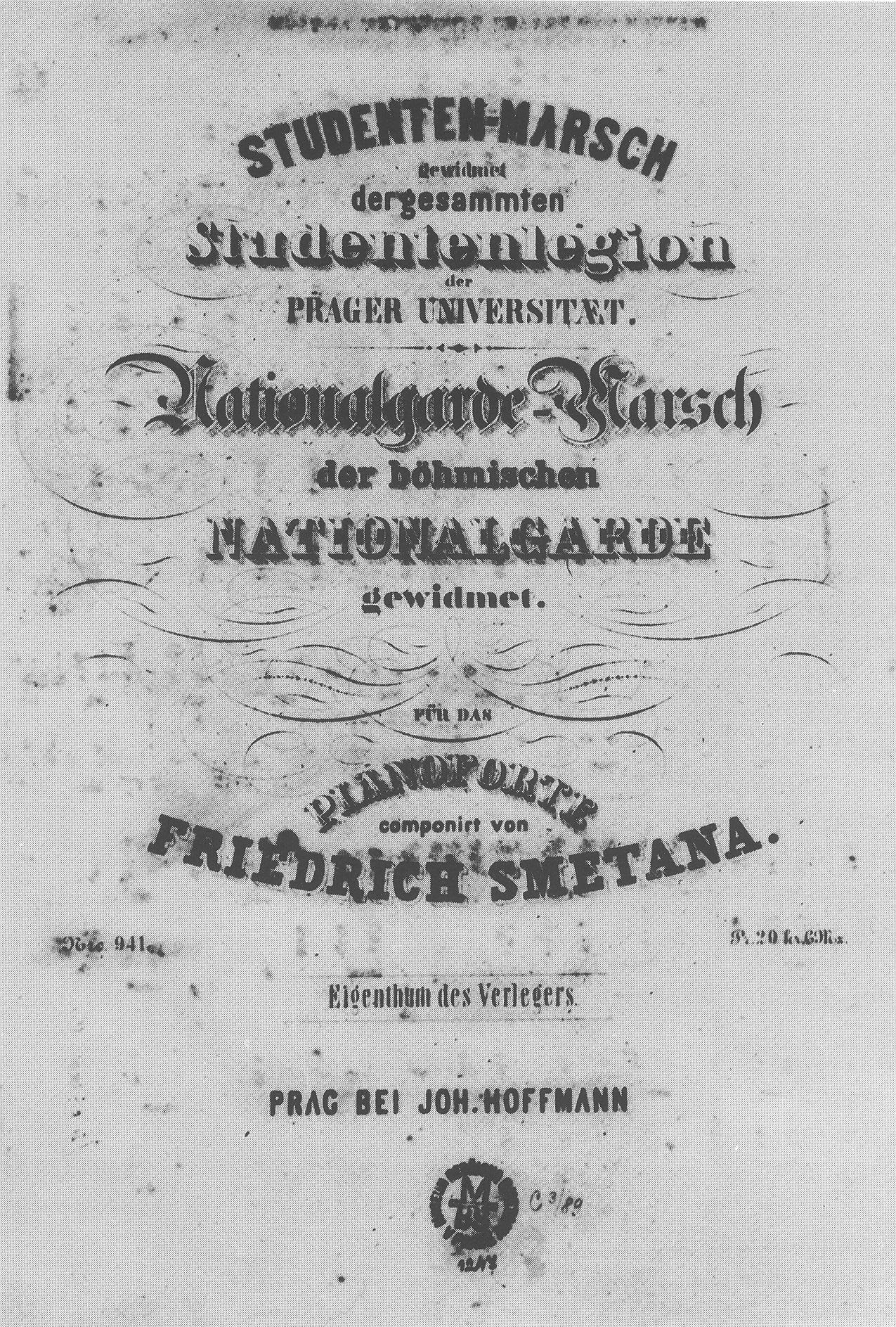 Title page of two 'revolutionary' marches (Studenten-Marsch and Nationalgarde-Marsch) by Bedřich Smetana – his first published pieces (1848)